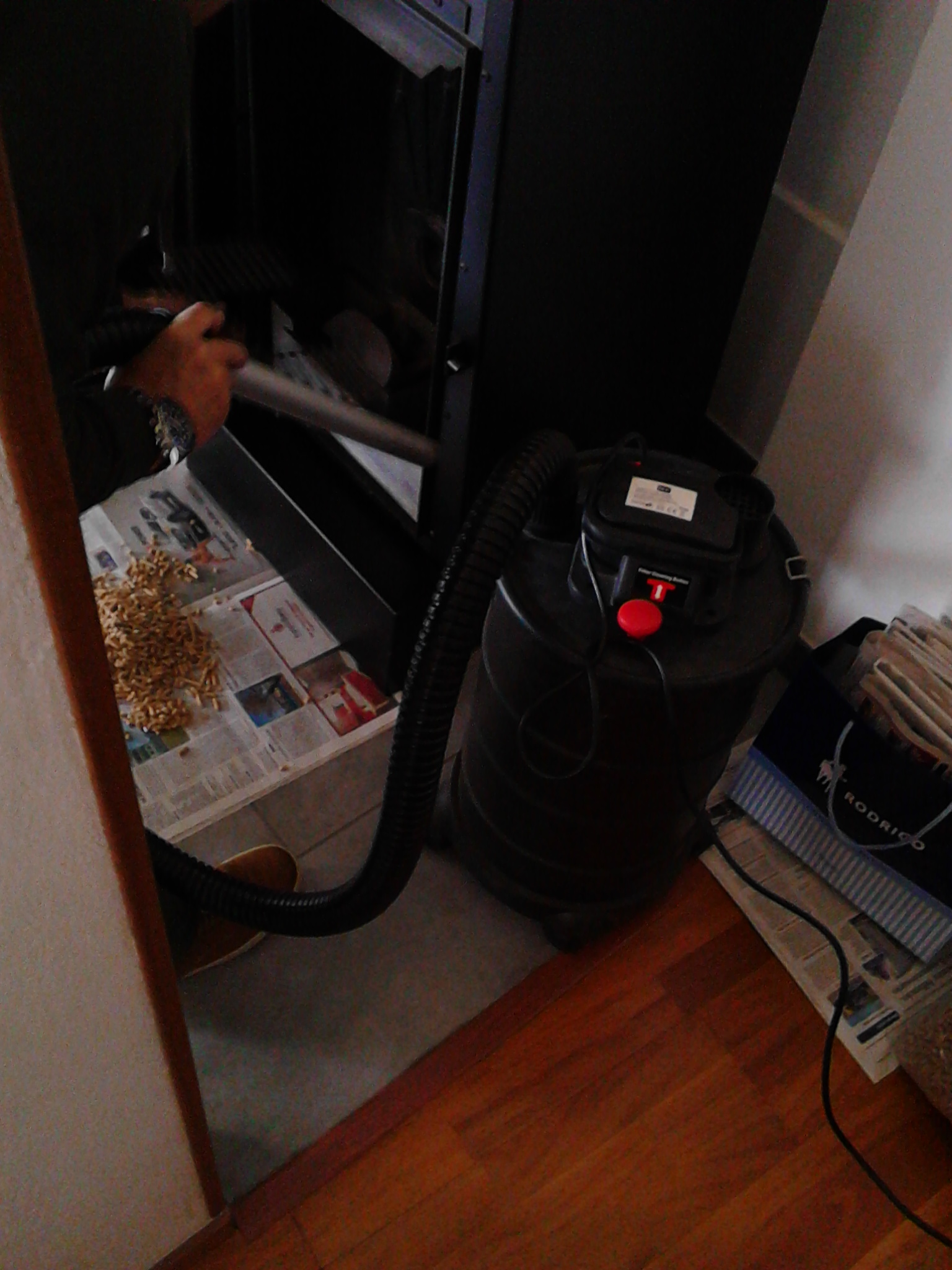 Ash vacuum